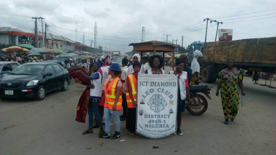 This is an image of "African people at work" from Nigeria